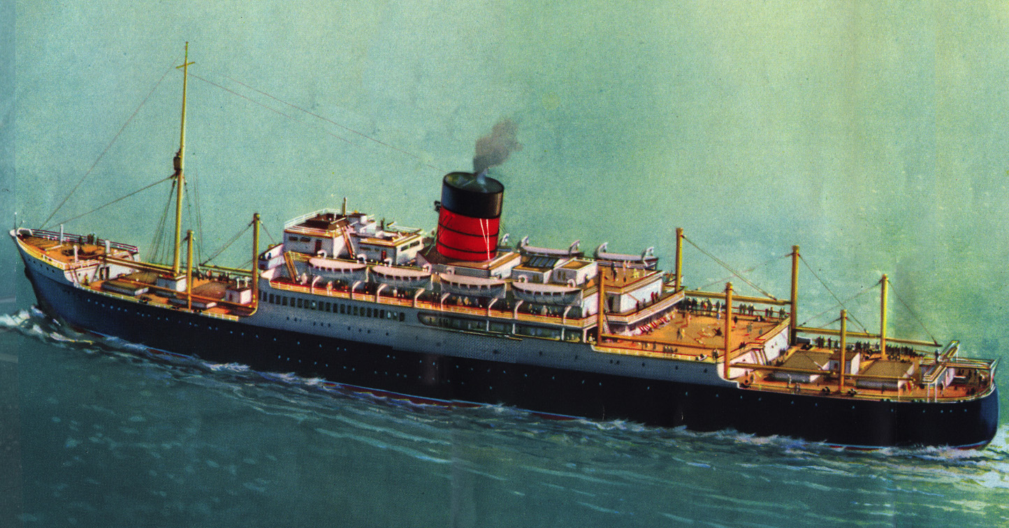 Cumard passenger/freighter RMS Parthia & RMS Media (1947)